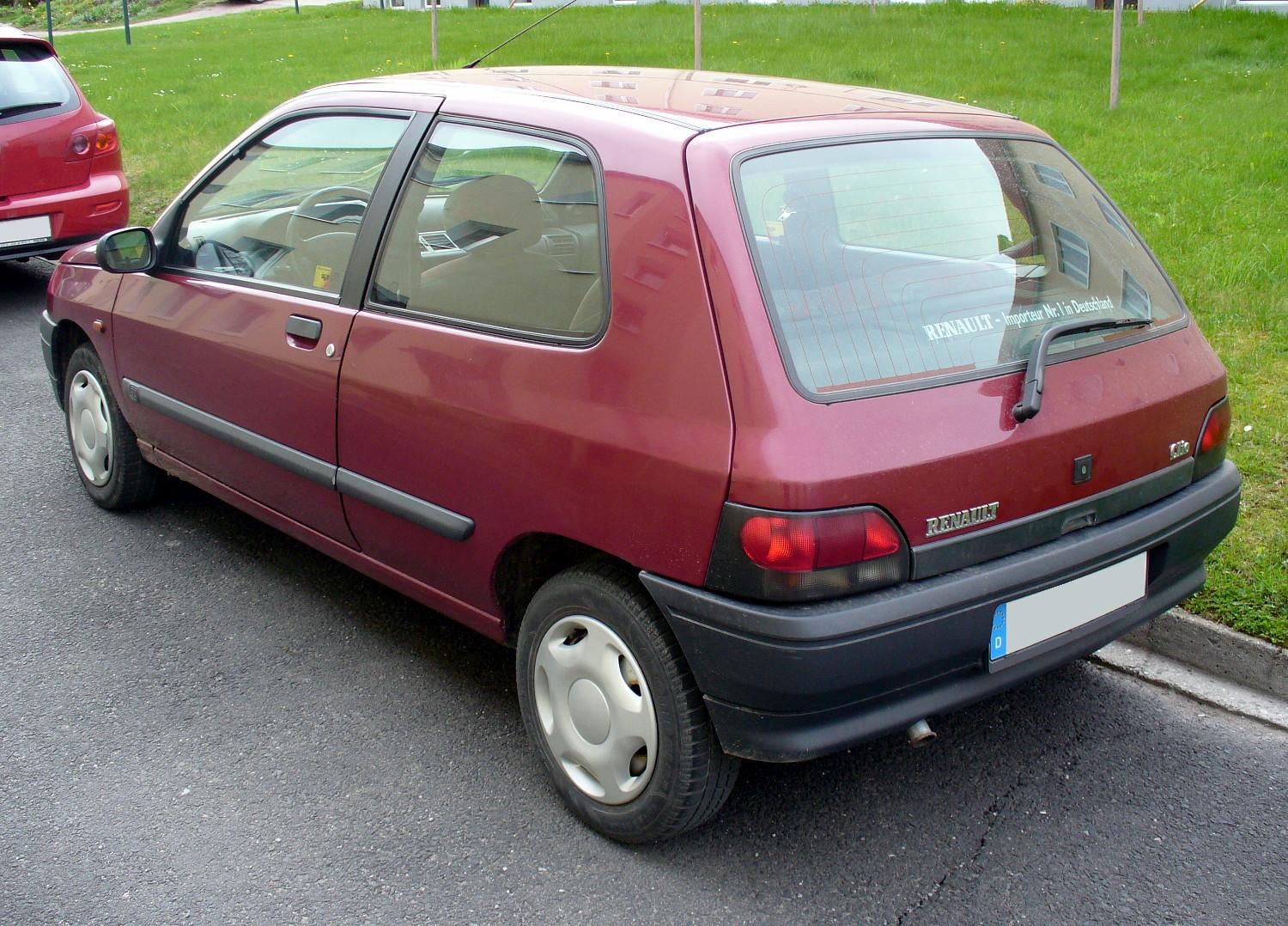 Renault Clio I Phase II